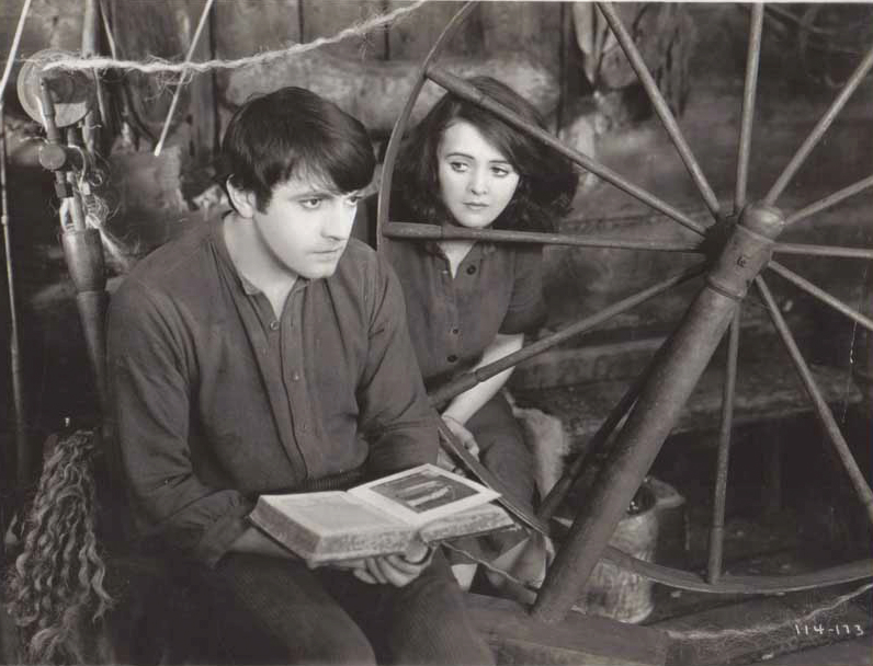 Photo from the 1928 film The Little Shepherd of Kingdom Come. Pictured are Richard Barthelmess and Molly O'Day.